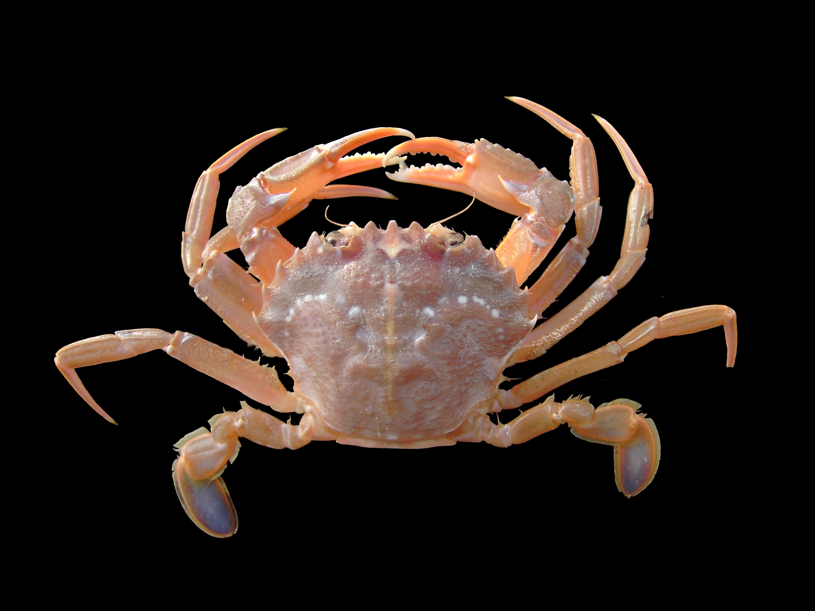 Blue-leg swimming crab taken on board of RV Belgica at Westdiep on the Belgian Continental Shelf. Carapace width: 43 mm.